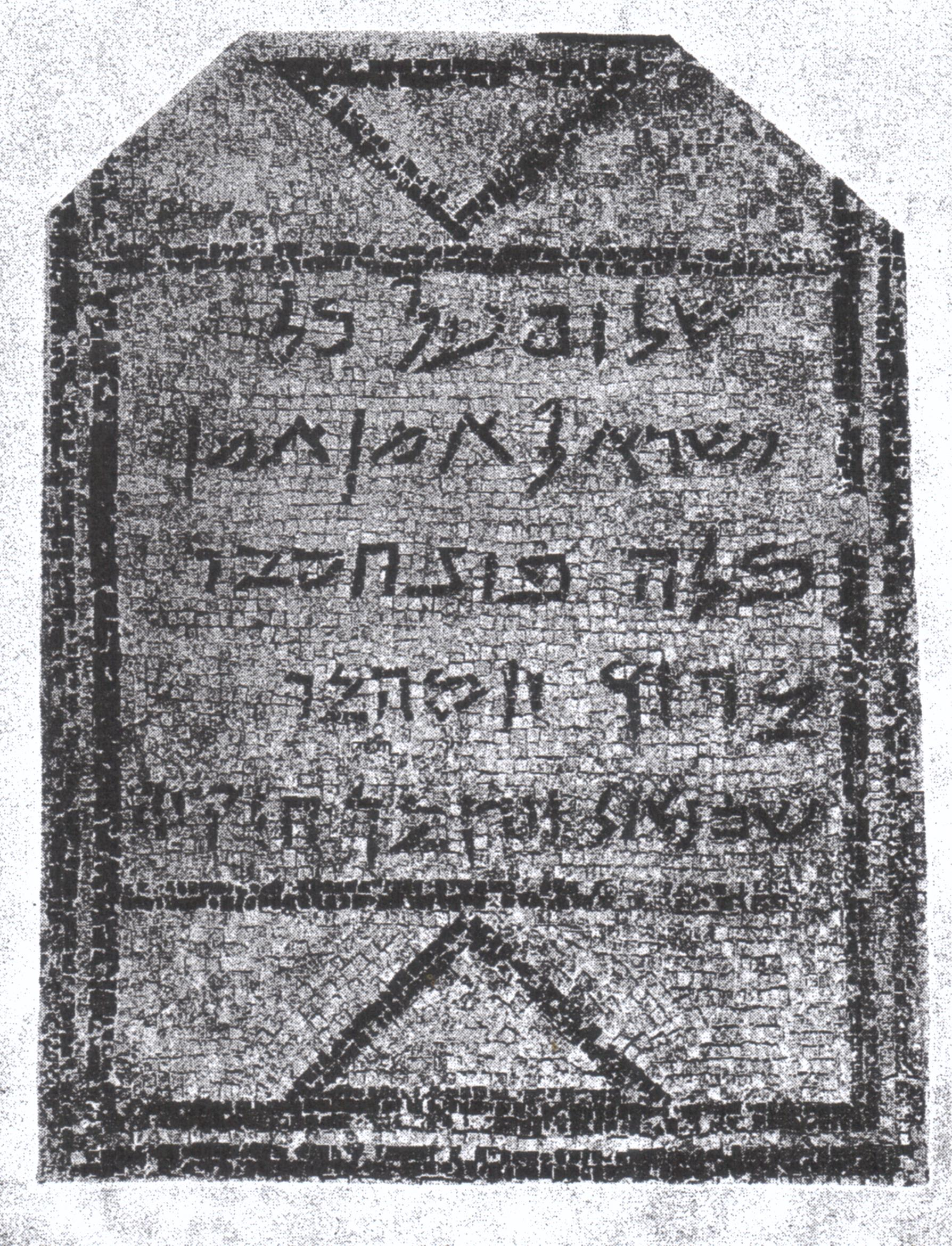 Scan of image showing a mosaic found in the foundations of a Byzantine church that was built in Jerash in AD 530